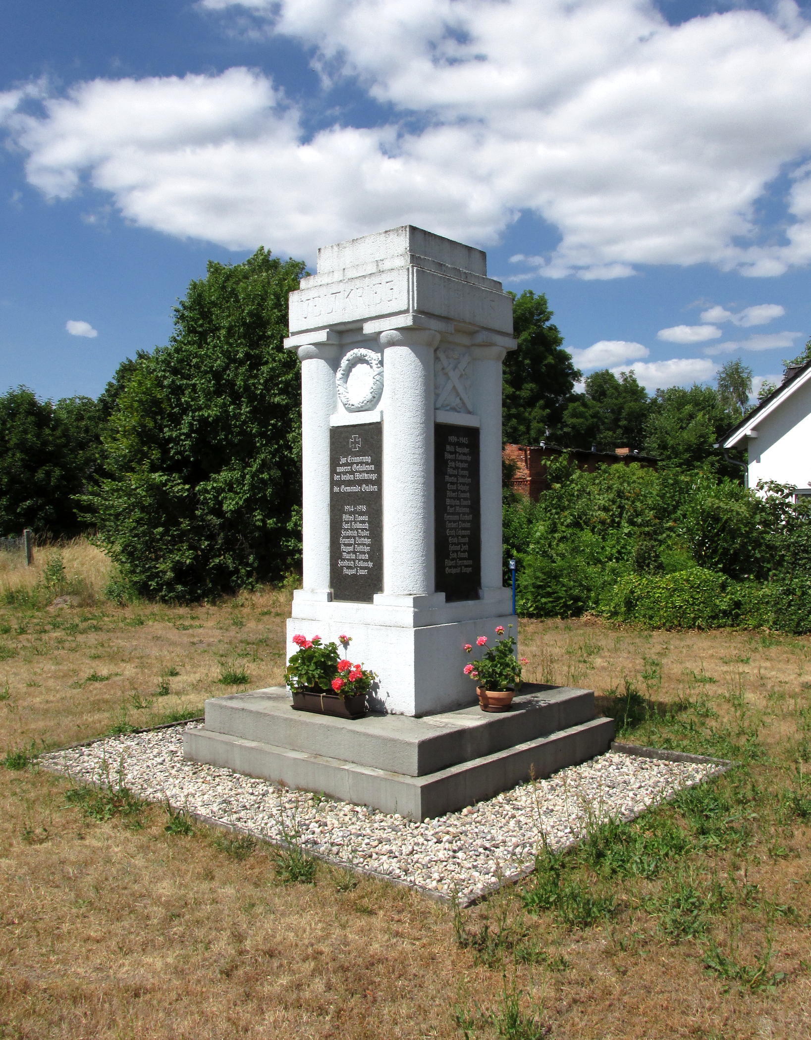 Gefallenendenkmal Gulben, Gulbener Hauptstraße in Gulben. It lists young men of the village who became casualties of both World Wars.